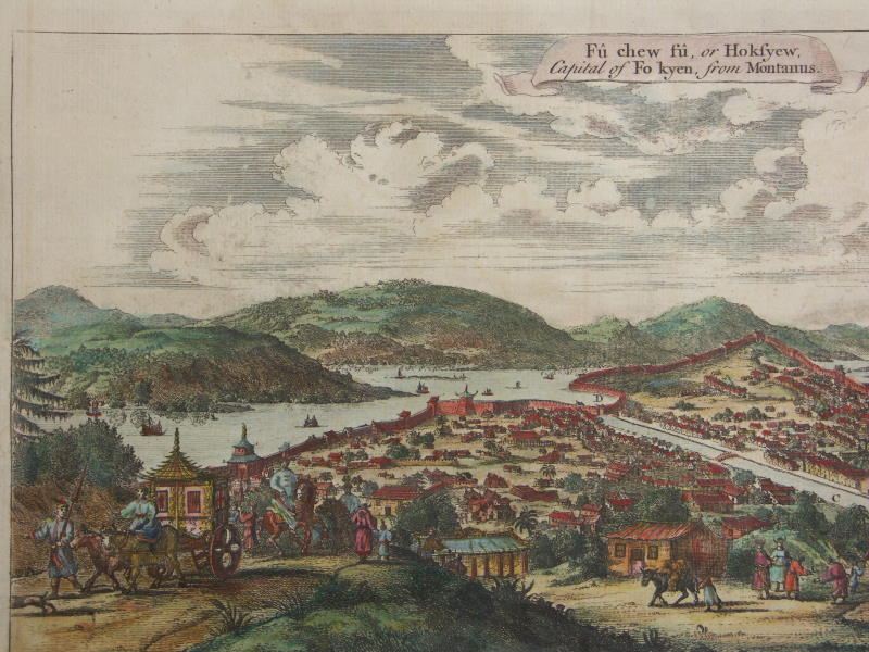 An 18th century picture of the city of Hoksyew (in Foochow language) or Fu-chew-fu (in Mandarin language), the capital of Fokyen (Fujian) in the southeast coast of China, which is known as Fuzhou in modern mandarin.